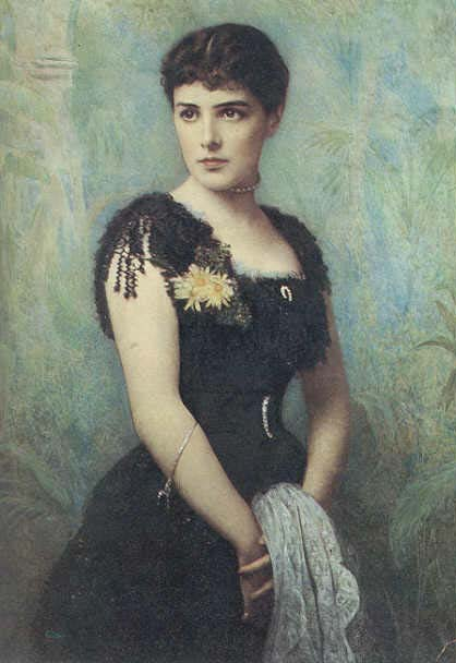 Jennie Churchill (1854-1921)